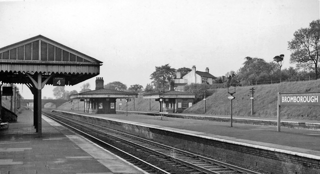 Bromborough Station. View towards Spital (and Birkenhead); Birkenhead Joint (Great Western & London & North Western) Chester - Birkenhead main line